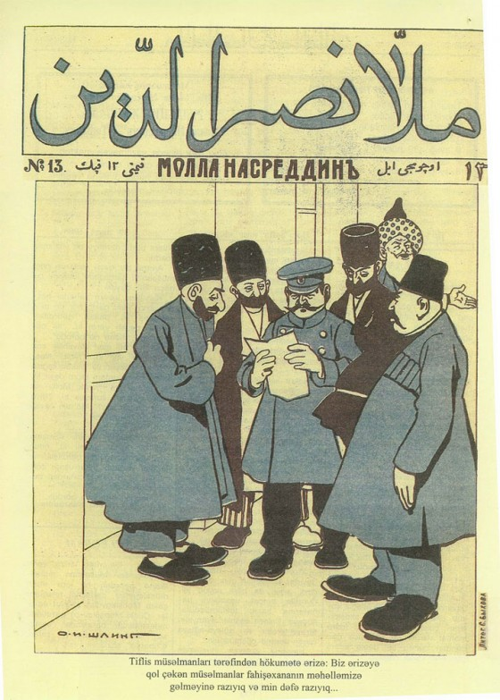 Molla Nasreddin № 13. Molla Nasreddin magazine (on Azeri), published between 1906-1931 Caption: A letter from Tbilisi Muslims to the local government in support of opening a public house (brothel) in the Muslim quarter.